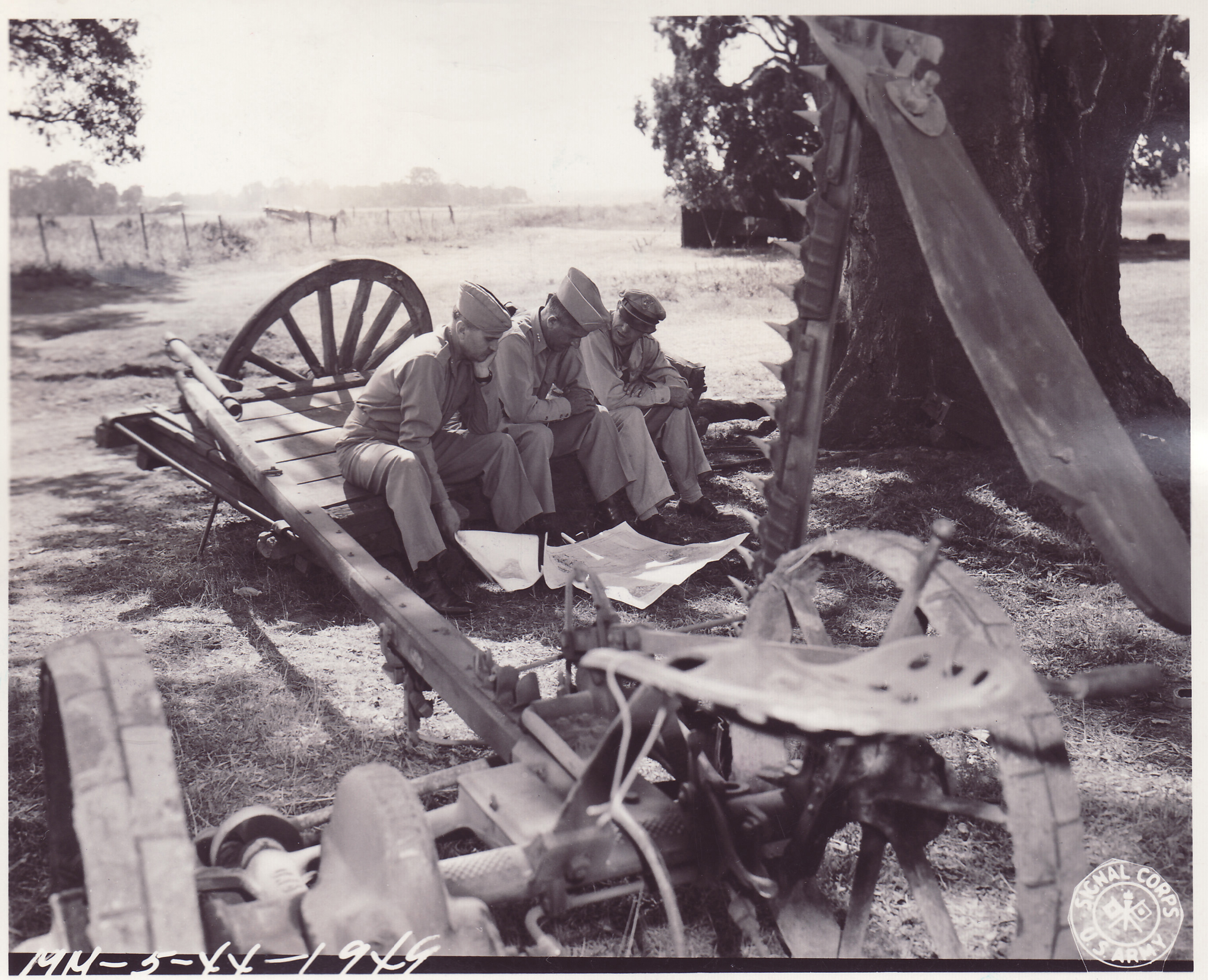 Pictured on the French island of Corsica in June of 1944 are from left to right : Brigadier General Gordon P. Saville, commander of the USAAF XII Tactical Air Command Lieutenant General Jacob L. Devers, to be named commander of 6th Army Group in July of 1944 Major General John K. Cannon, commander of the US Twelfth Air Force and the Mediterranean Allied Tactical Air Force of the Mediterranean Allied Air Forces